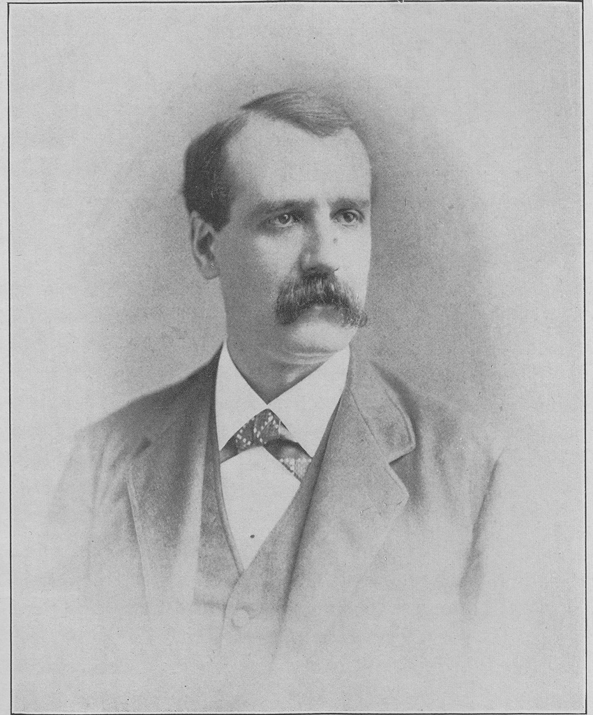 Francis Amasa Walker